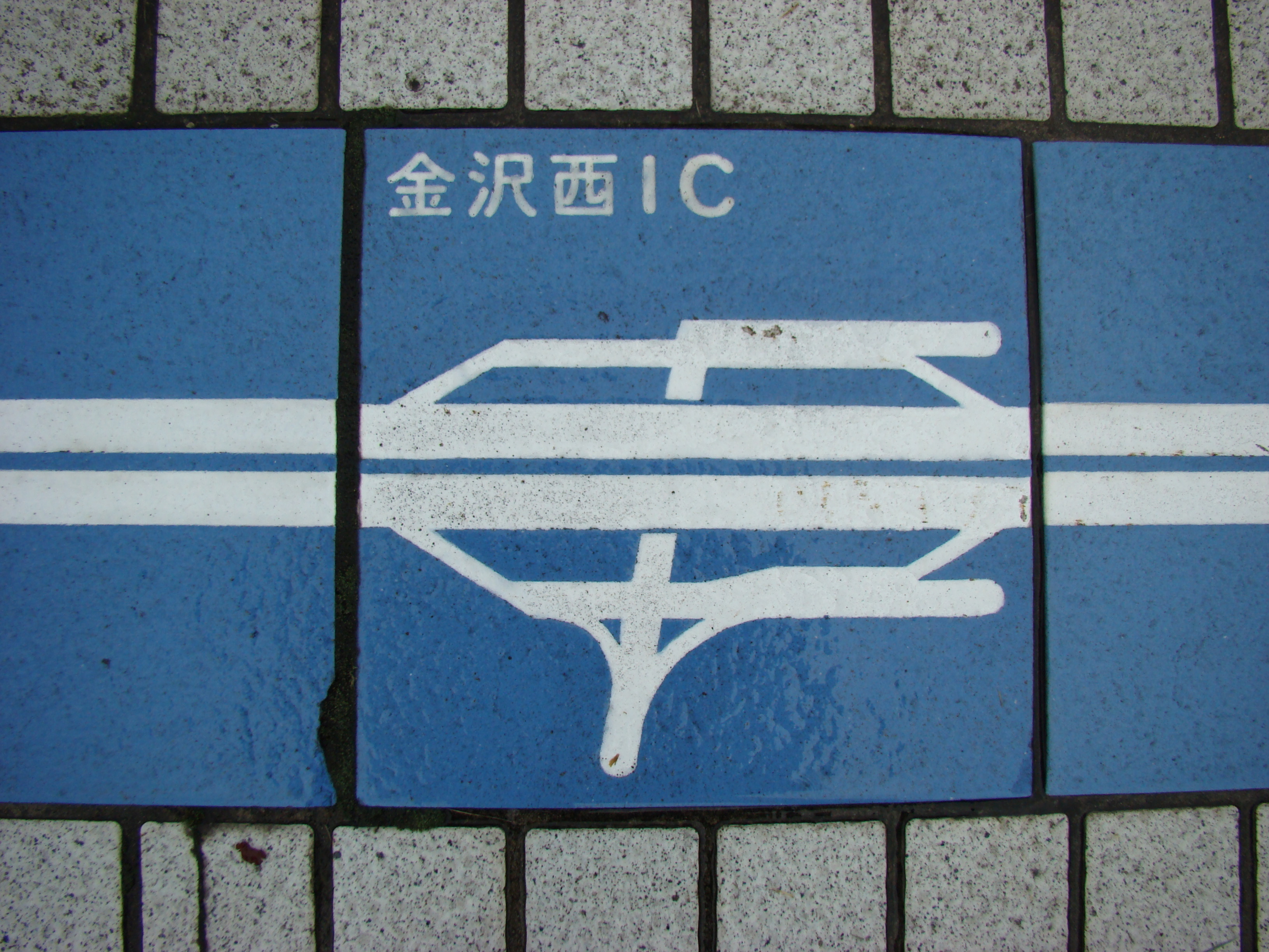 The tile which designed a shape of the Kanazawa-Nishi Interchange（Hokuriku Expressway）（There is this tile in Hokuriku Expressway Nadachi-Tanihama Service Area.）. Place - Chayagahara,Joetsu City,Niigata Prefecture,Japan Date - August 9, 2009 Format - JPEG, 3264x2448pixel, 24bit colors. Photographer - NALA Wiki (talk)